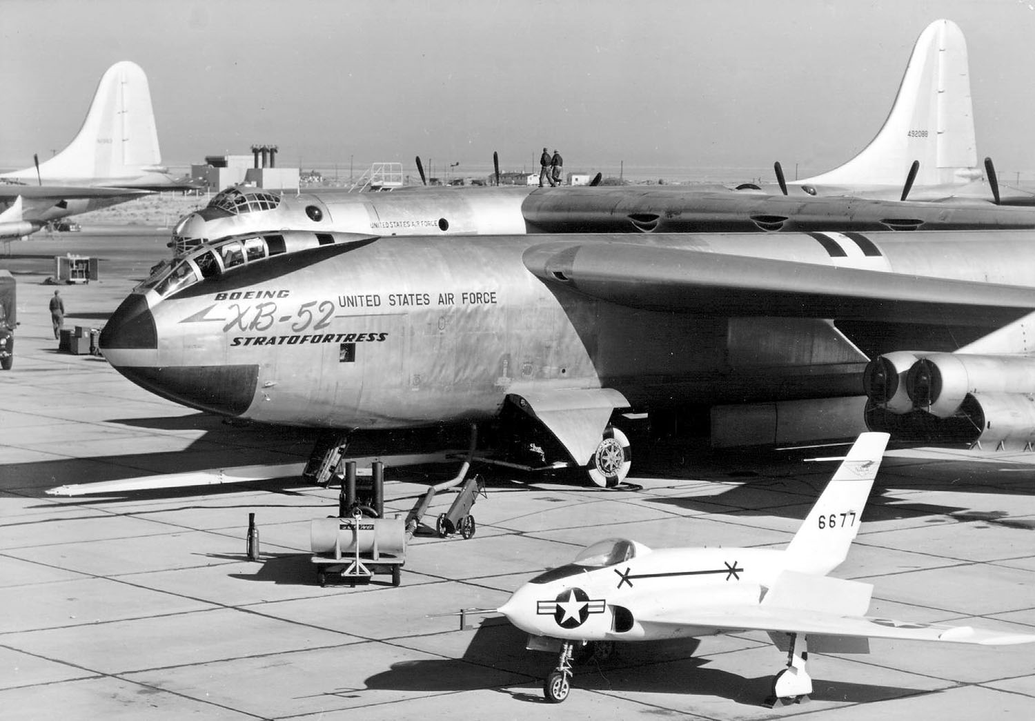 Photo of XB-52 bomber on flightline; with a Northrop X-4 in the foreground and a Convair B-36 in the background